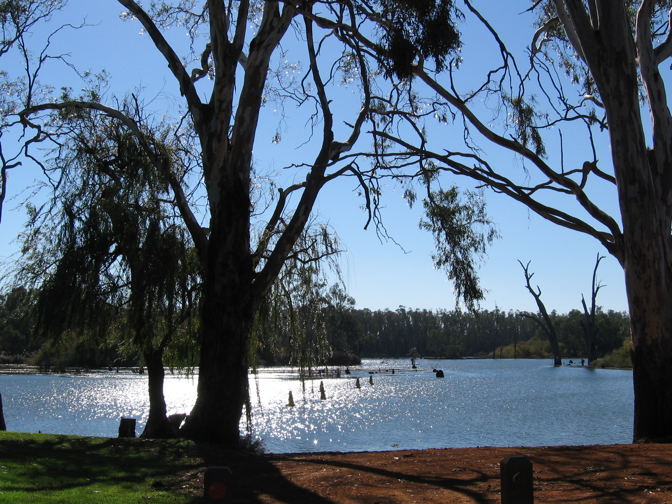 Murray River at Bundalong, Victoria